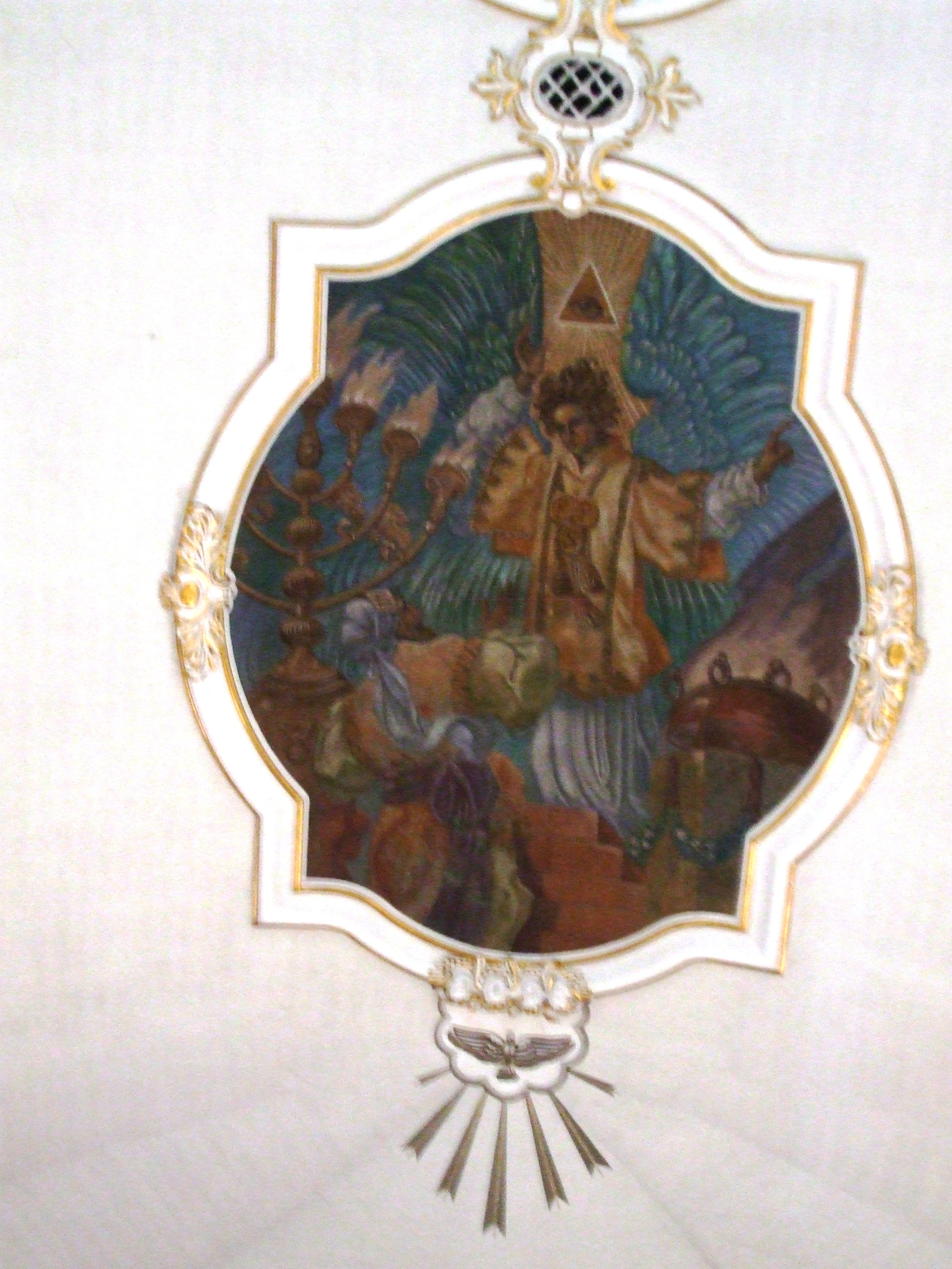 St. Johannis Glandorf - Painting